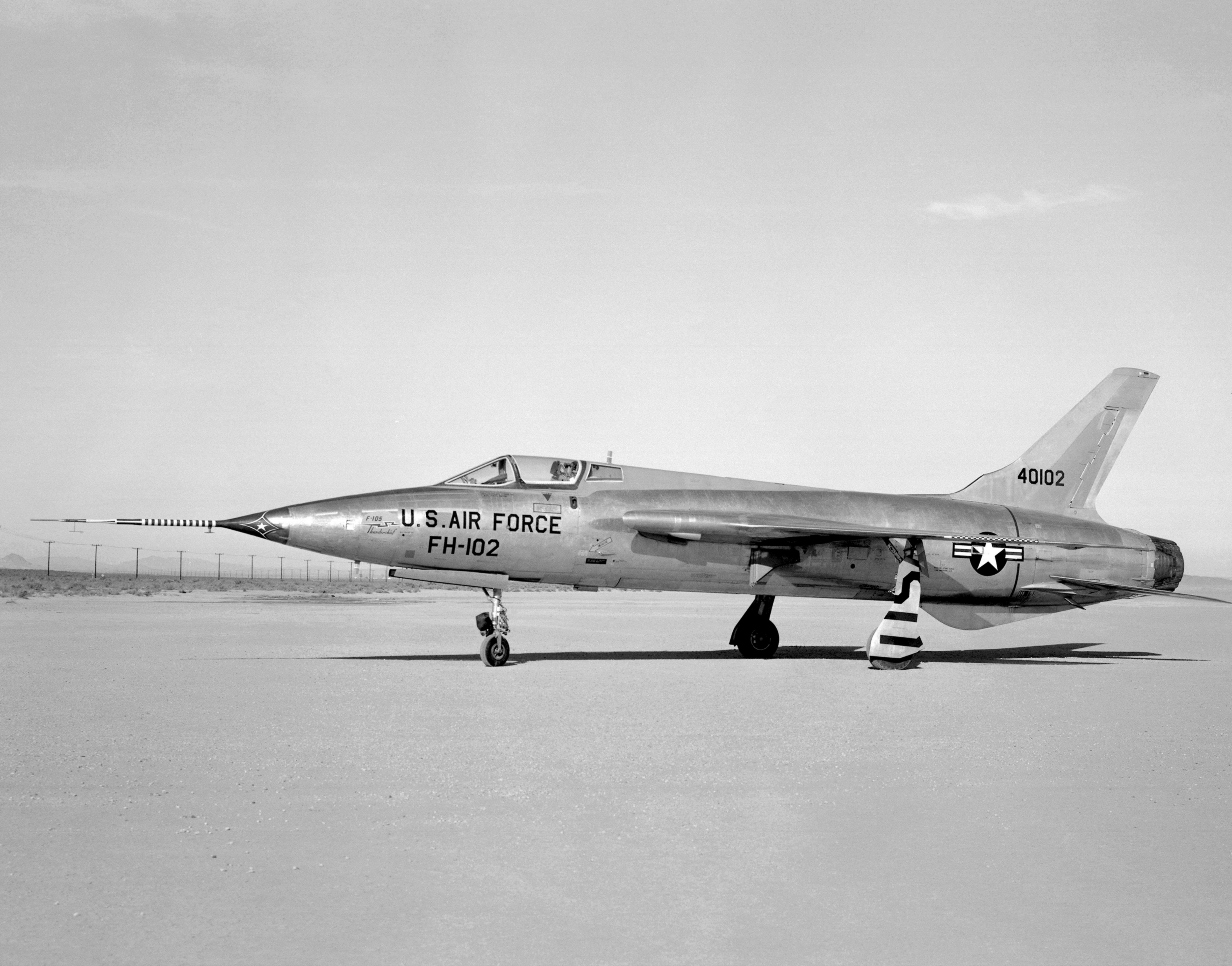 A U.S. Air Force Republic F-105B-1-RE Thunderchief (s/n 54-0102) photographed on Rogers Dry Lakebed at Edwards Air Force Base, California (USA) on 16 December 1959. Note the windows behind the canopy on the first F-105Bs.